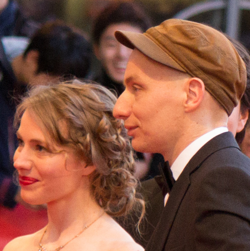 Dietrich and Anna Brüggemann at Berlinale 2014